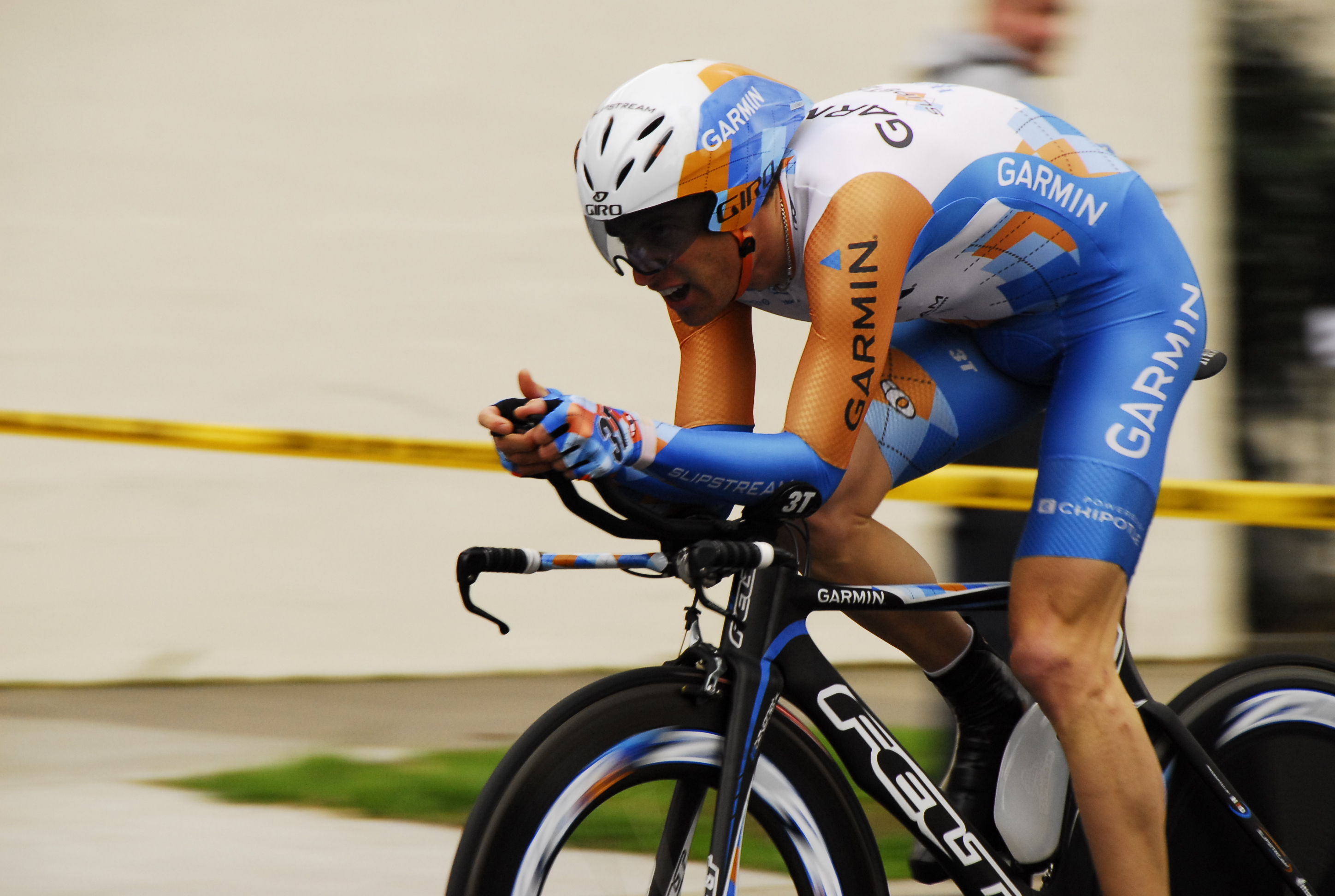 Christian Vande Velde, Tour of California 2009